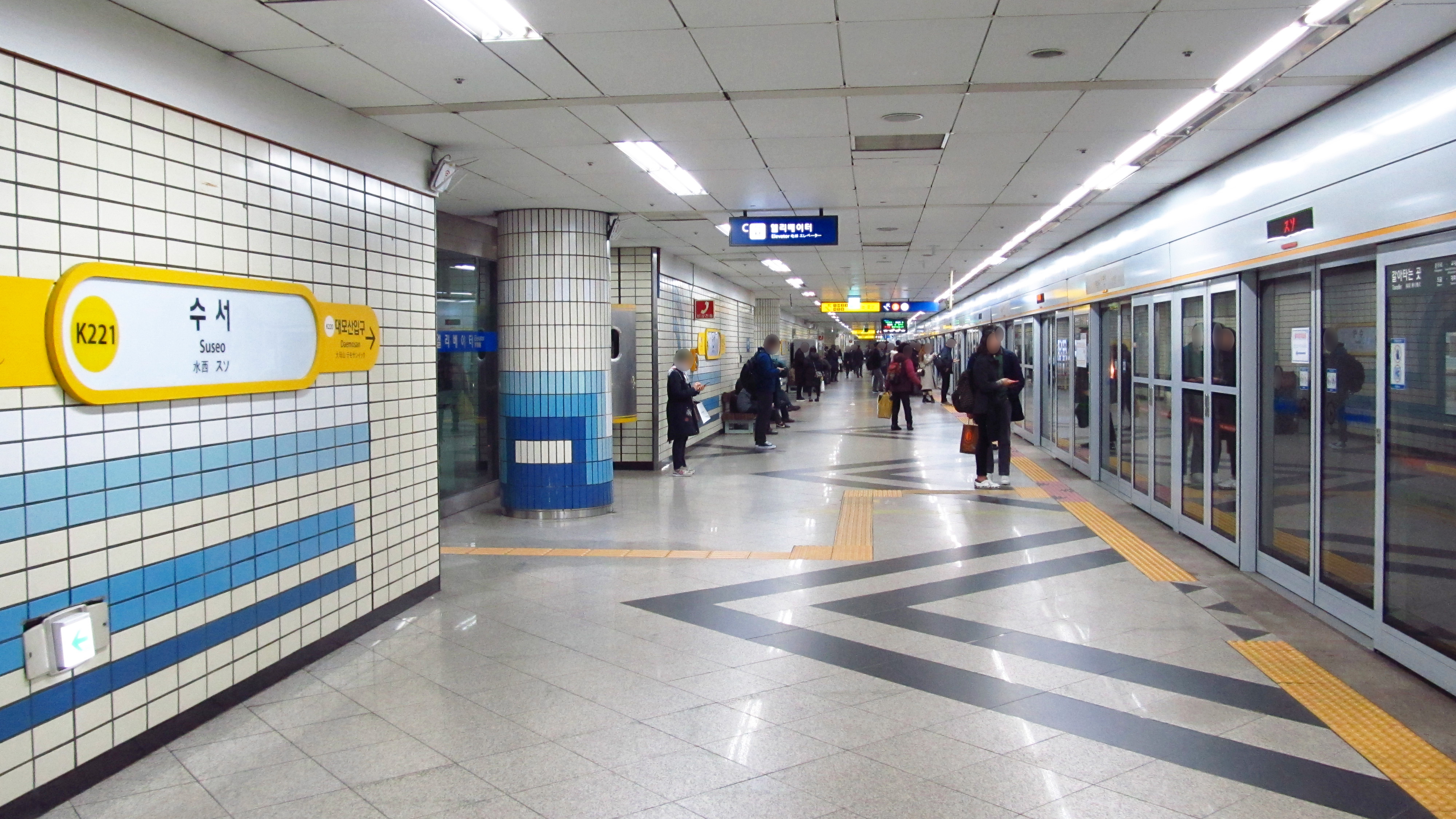 The platform at Suseo Station on Bundang Line in Gangnam-gu, Seoul, Republic of Korea(South Korea)